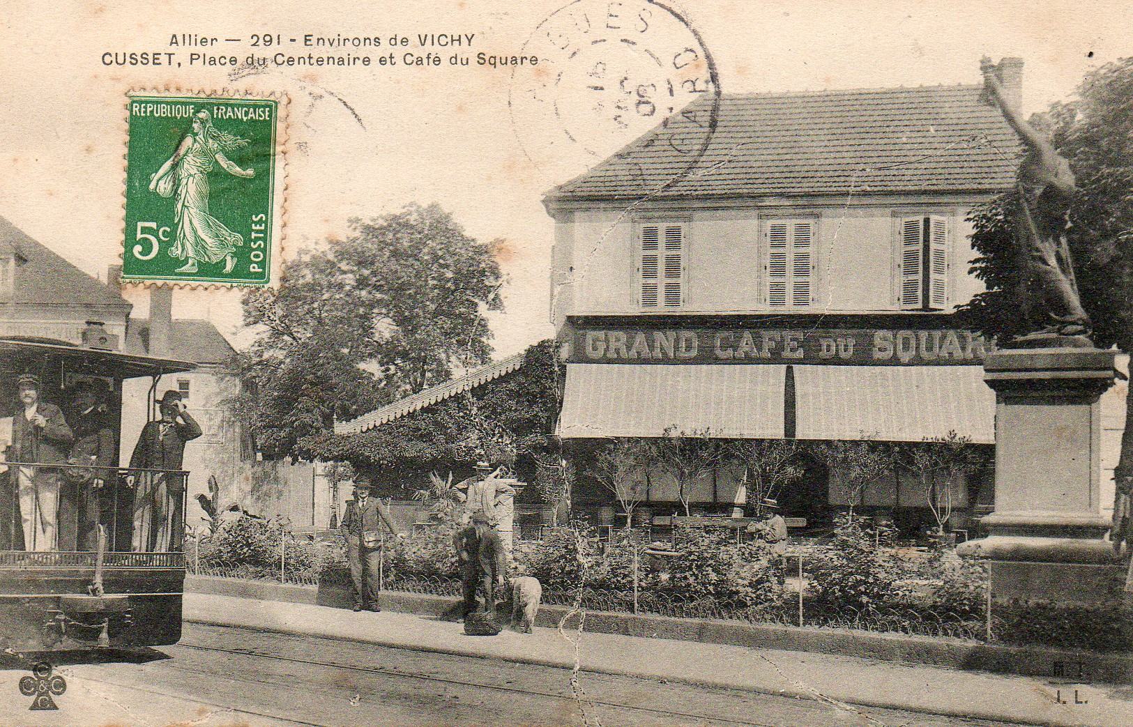 Back of a Mekarski compress air tram in Cusset (Allier, France) around 1900, Vichy-Cusset network vintage postcard around 1900